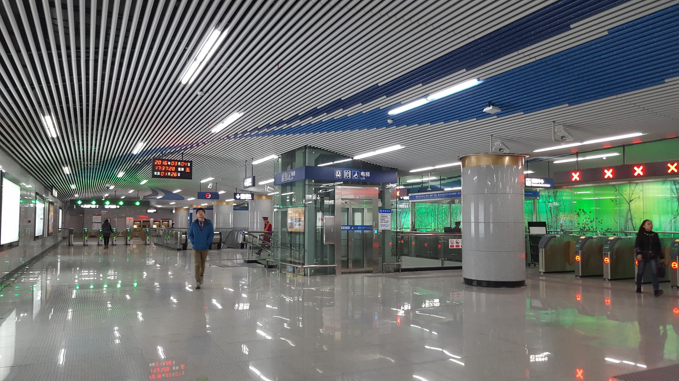 Concourse of Sixin Boulevard Station, Wuhan Metro